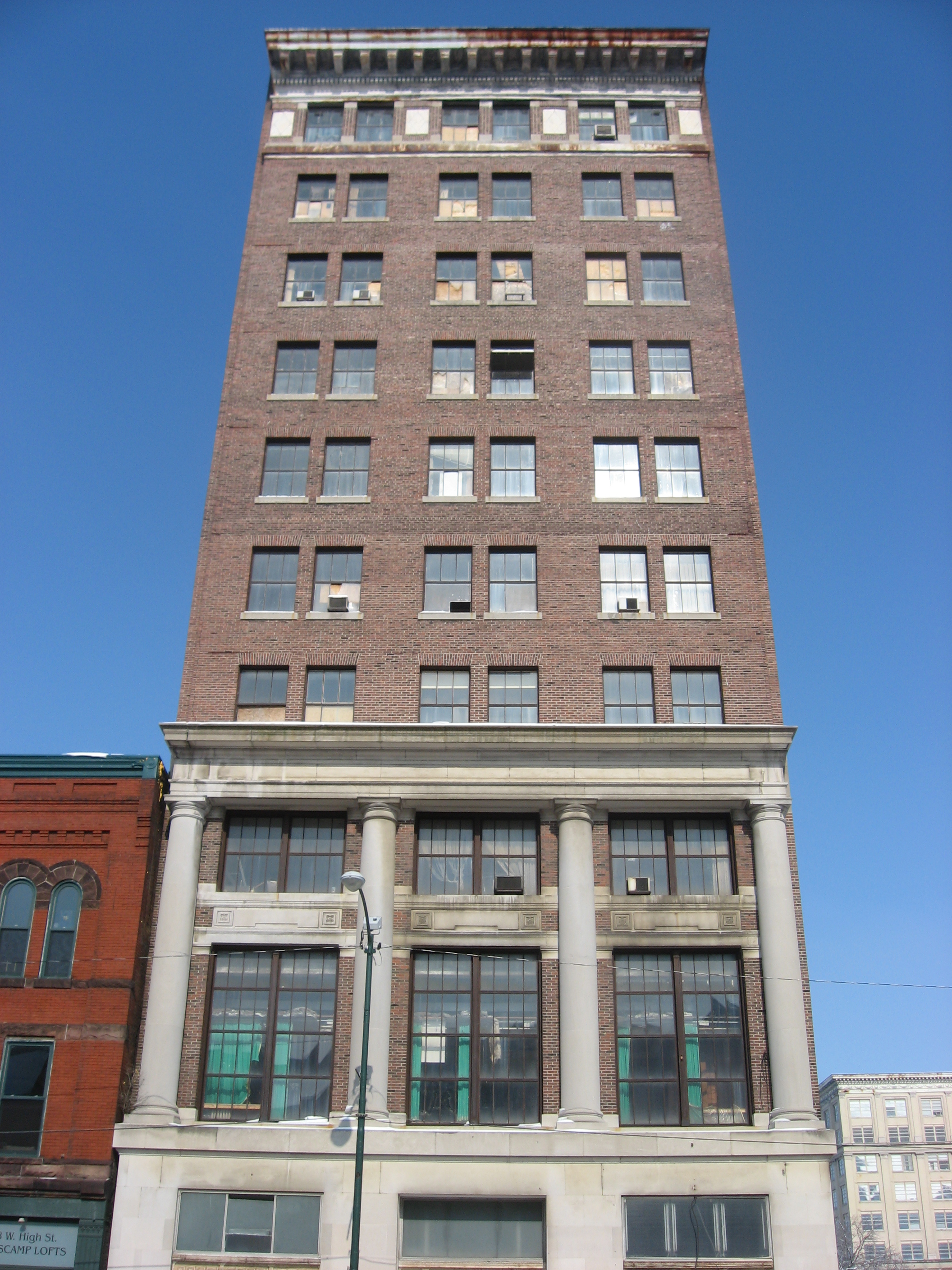 Front of the Tecumseh Building, located at 34 W. High Street in downtown Springfield, Ohio, United States. Built in 1922, it is listed on the National Register of Historic Places.